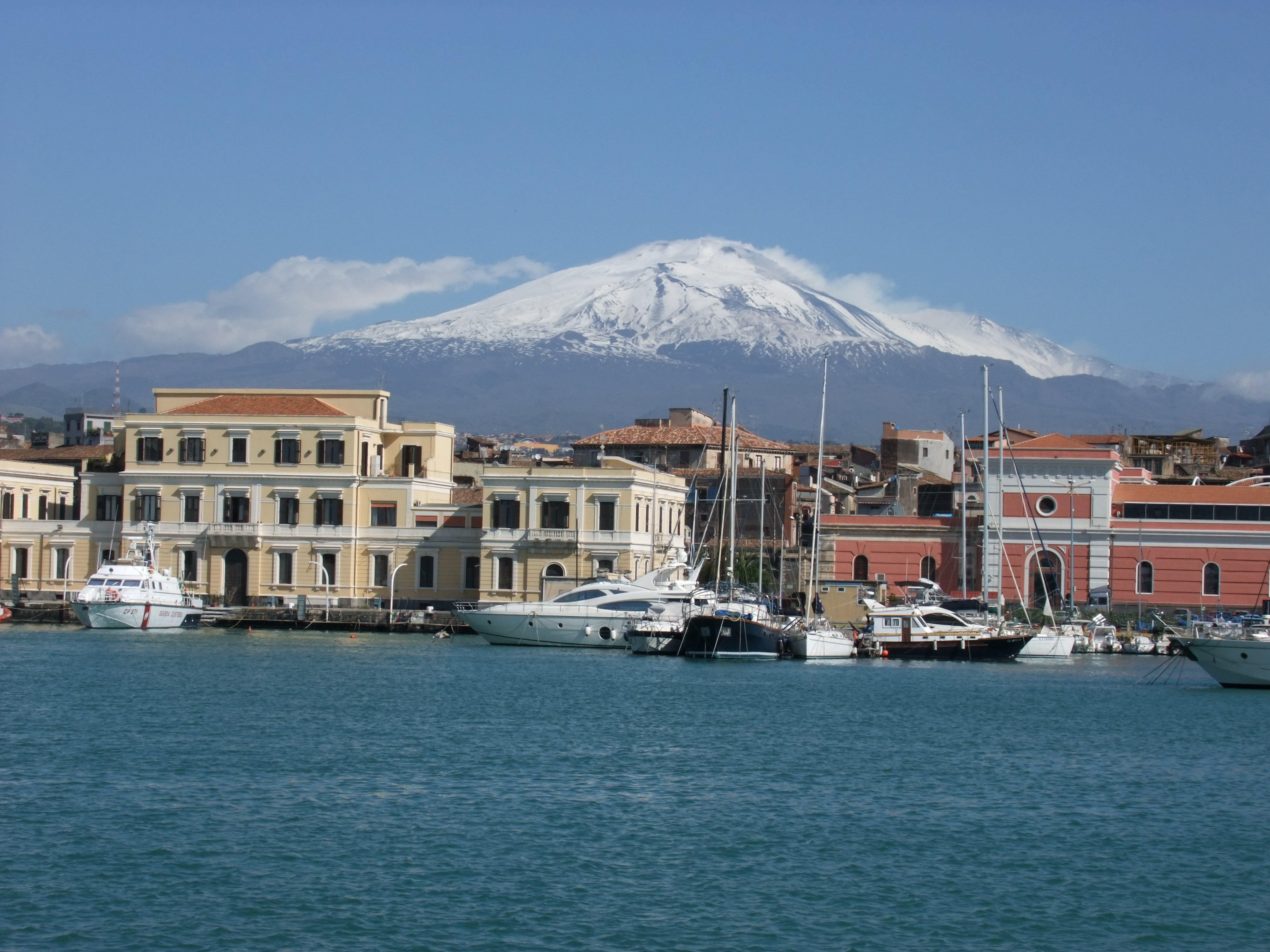 Waterfront of Catania, Sicily, with mount Etna in the background